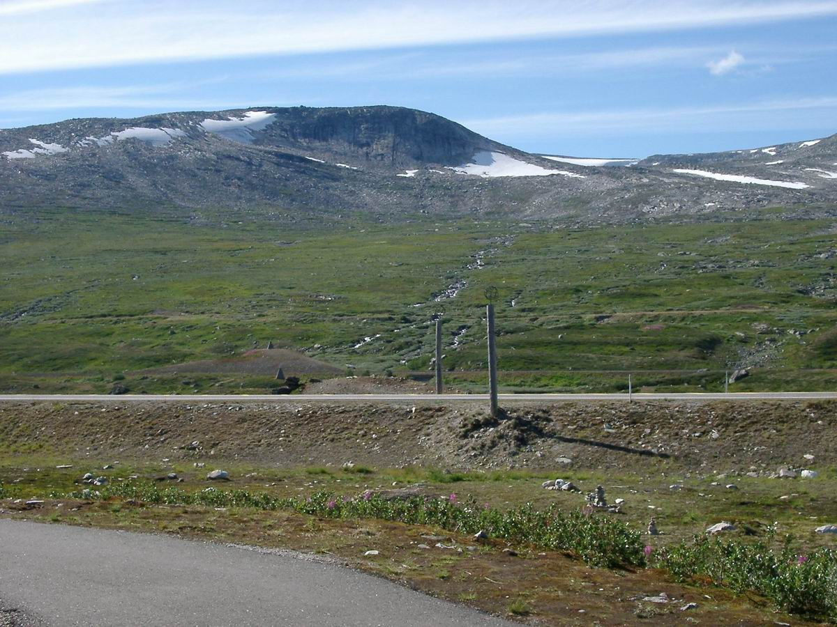 Polar circle, Saltfjell mountain range (700 m.a.s.l.), Nordland, Norway